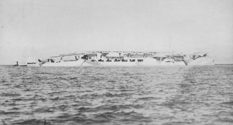 Ishihara Kisen K.K. oiler, Type Toku-1TL wartime standard ship Shimane Maru